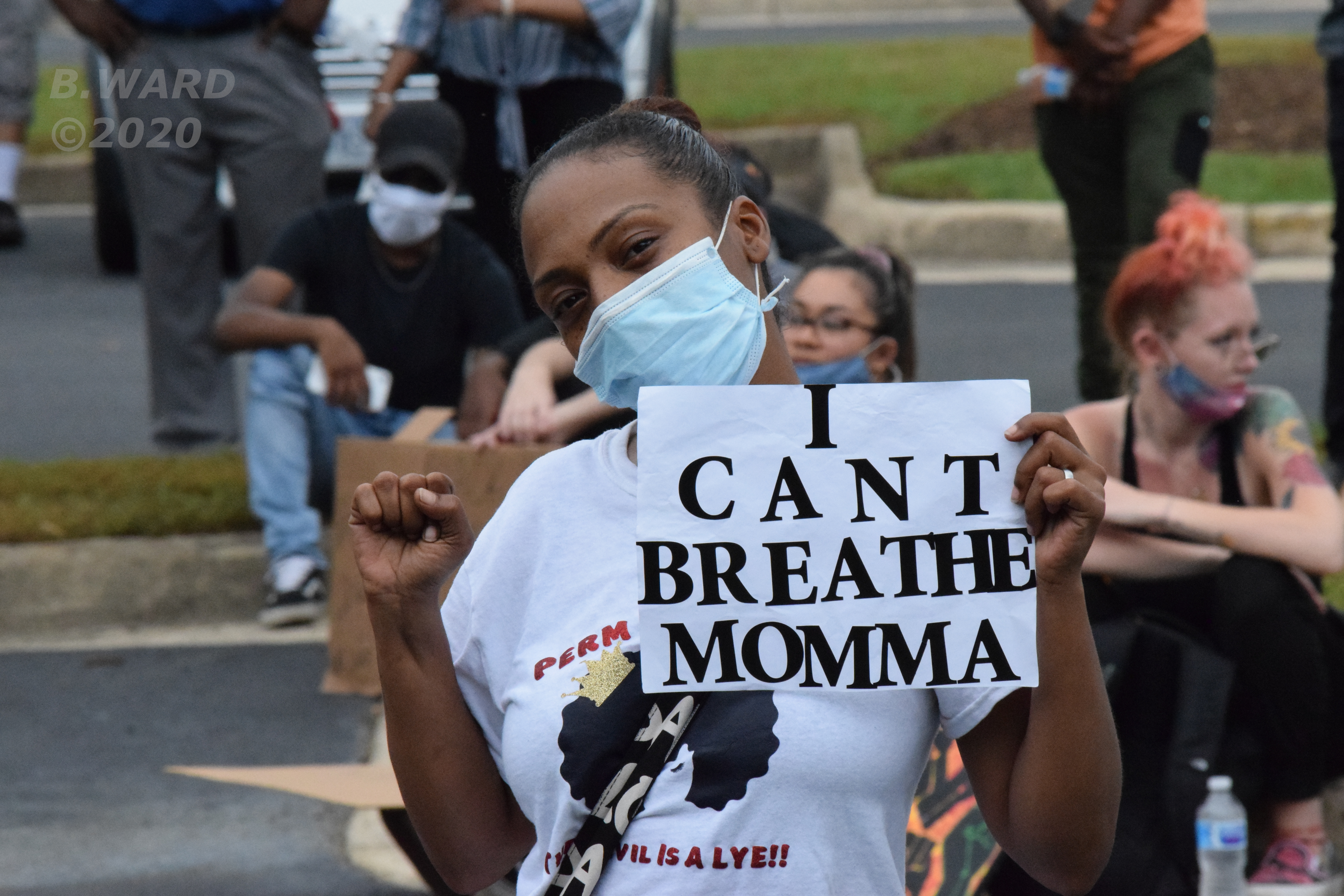 A Protester holds up a sign saying "I Can't Breathe Mama," at a Black Lives Matter Rally in Dumfries, Virginia.